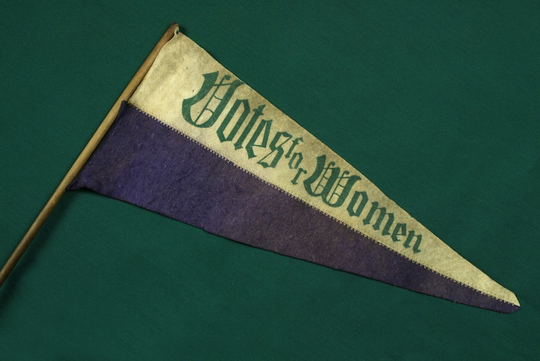 The object in this image is within the permanent collection of The Children’s Museum of Indianapolis